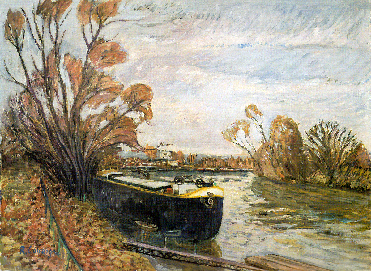 La Seine en automne